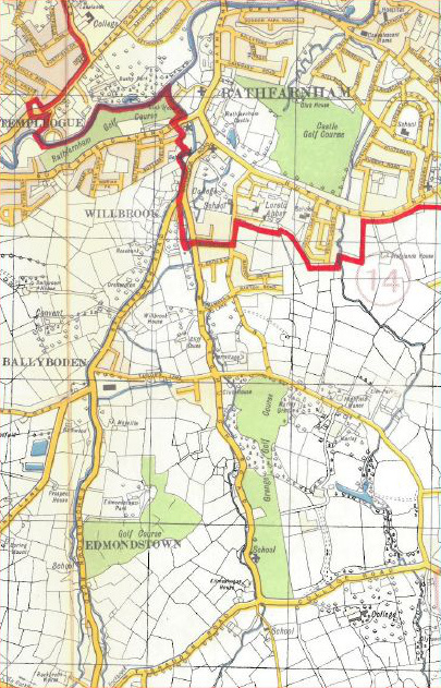 Map of area then rural to SSW and S of Dublin City, County Dublin, Ireland, showing part of River Dodder, with mountain-sourced tributaries the Owendoher River - and its tributary, the Whitechurch Stream - and the Little Dargle River. Also visible is then just-about outer suburban Rathfarnham.